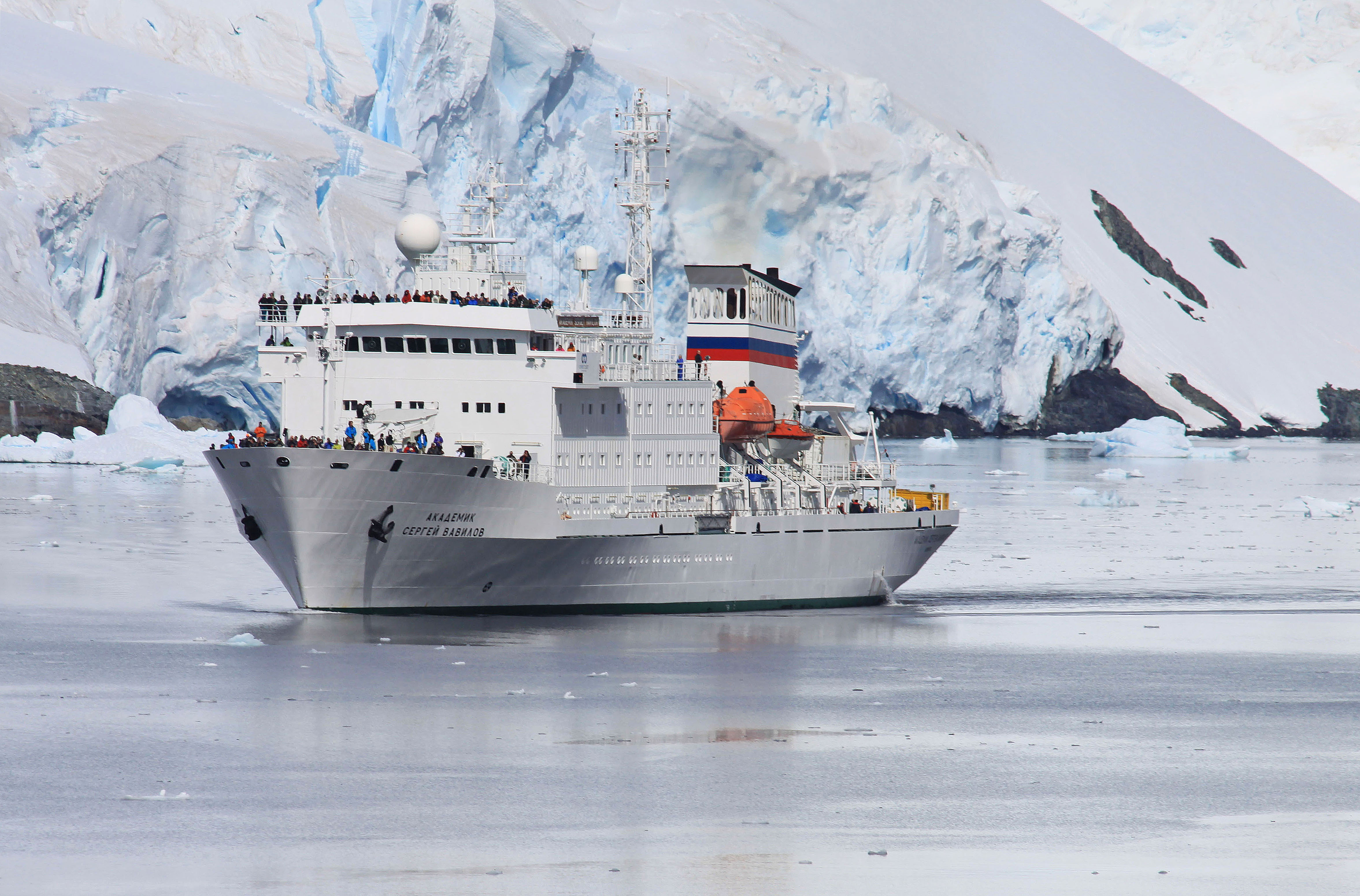 Russian cruise ship "Akademik Sergei Wawilow" in the Lemaire Channel